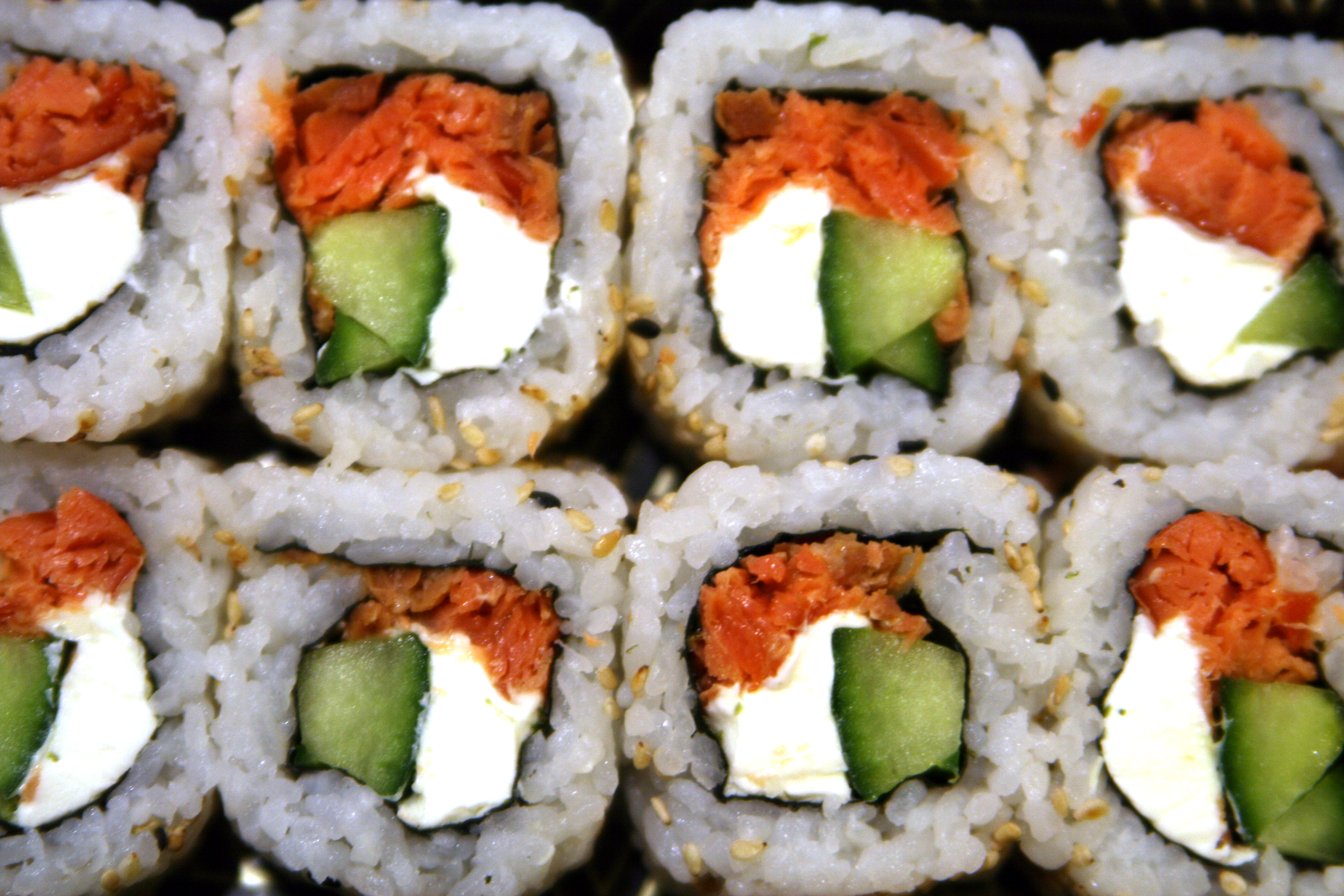 Makasushi roll composed of smoked salmon, cucumber and cream cheese.